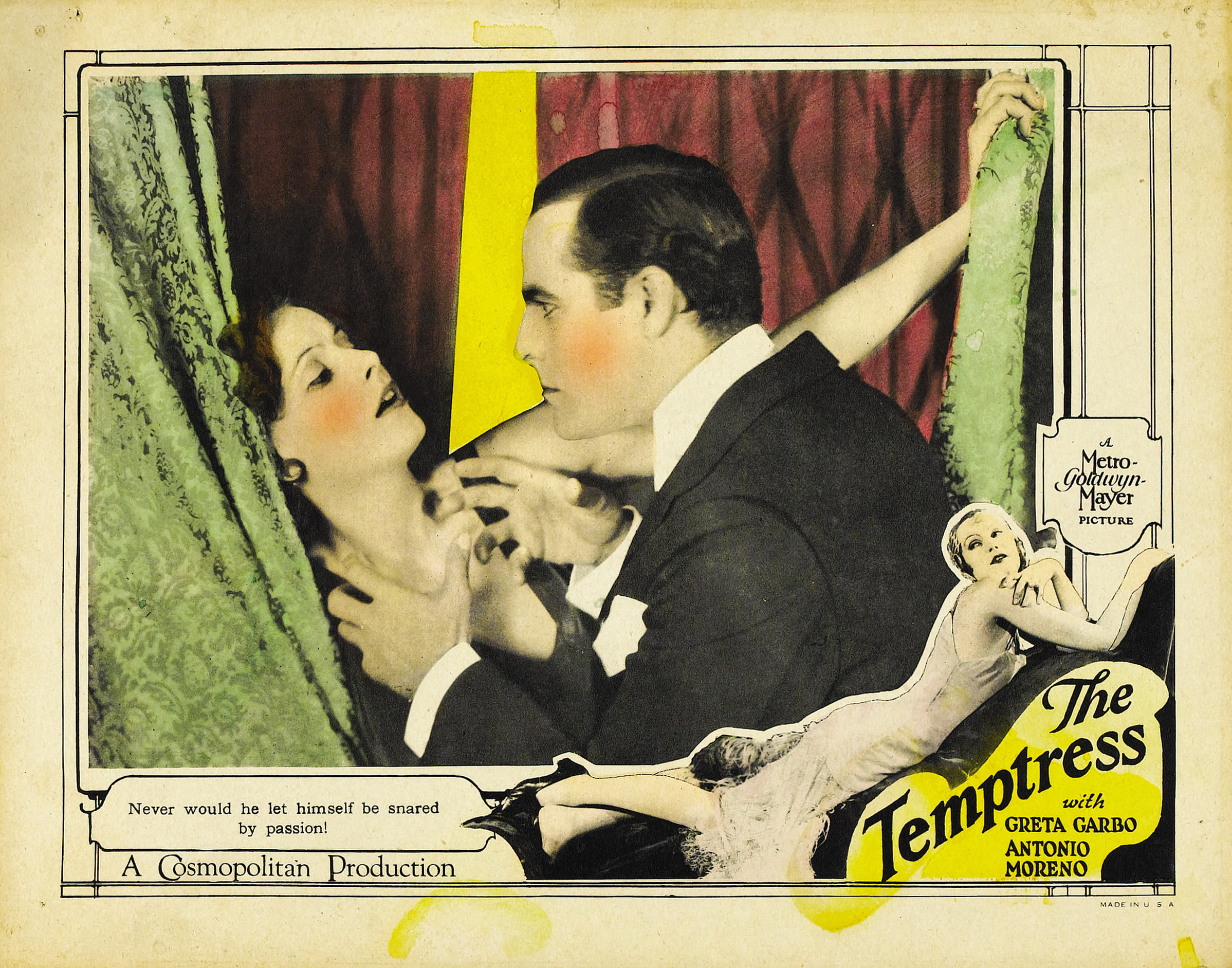 Lobby card for the American drama film The Temptress (1926).